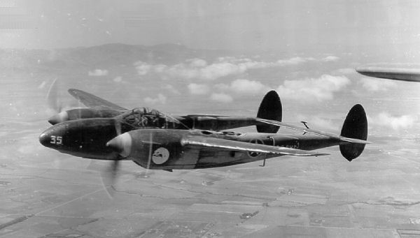 Lockheed F-6 of the 67th Reconnaissance Group, RAF Membury, England.